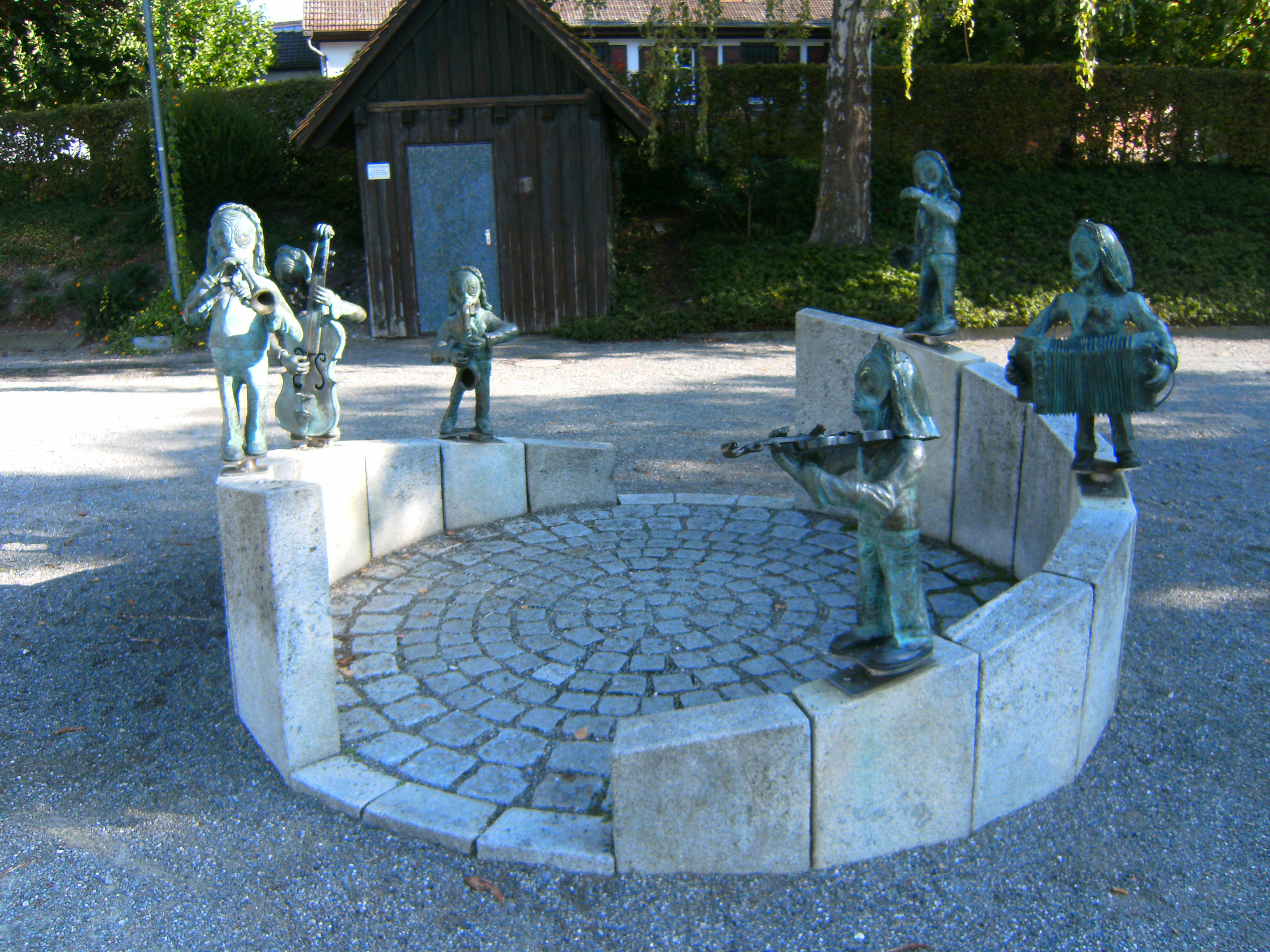 Allensbach, Germany, Lände: group of figures in a round.